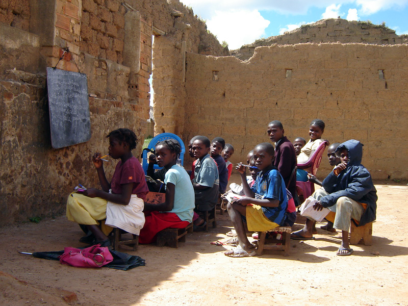 school class in Kuito, Angola, by Rafaela Printes